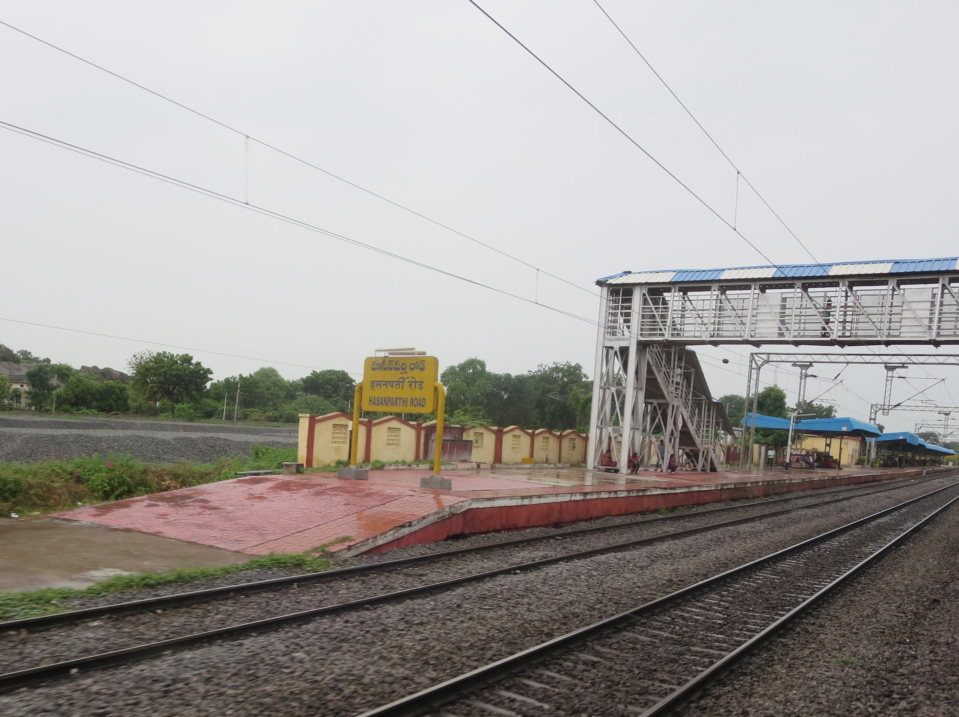 A view of Name board and foot over bridge of Hasanparthi Railway Station